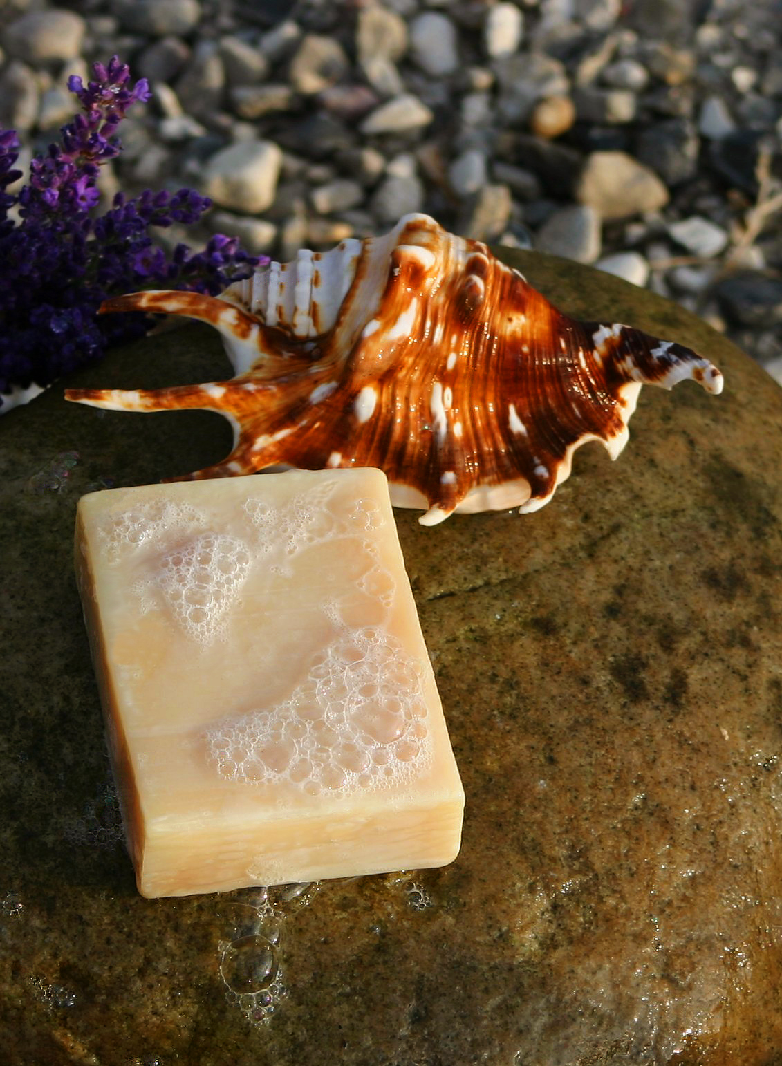 Handmade soap with the extract of stinging nettle (Urtica dioica). On a stone in my driveway, Randers in Denmark.